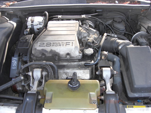 2.8 liter V6 engine in a Buick Regal